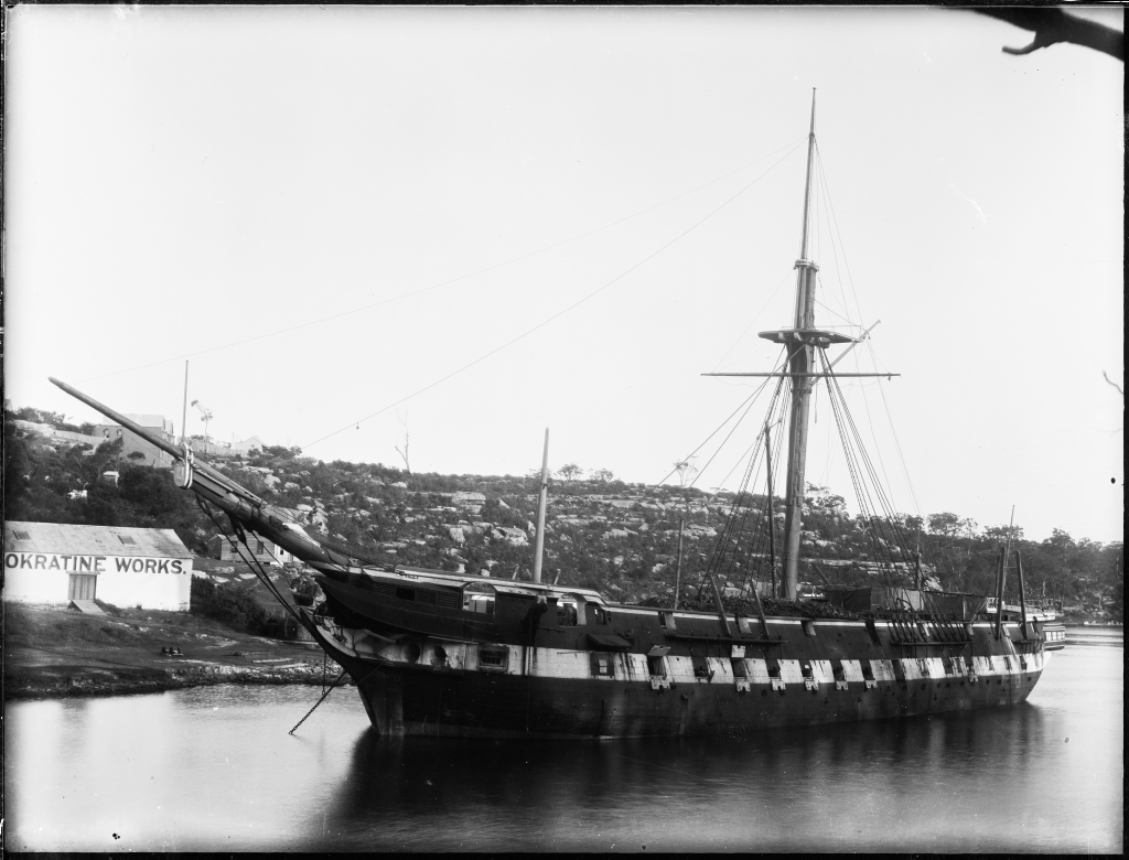 Format: Glass plate negative. Repository: Phillips Glass Plate Negative Collection, Powerhouse Museum Part Of: Powerhouse Museum Collection General information about the Powerhouse Museum Collection is available at Persistent URL: Acquisition credit line: Gift of the Estate of Raymond W Phillips, 2008